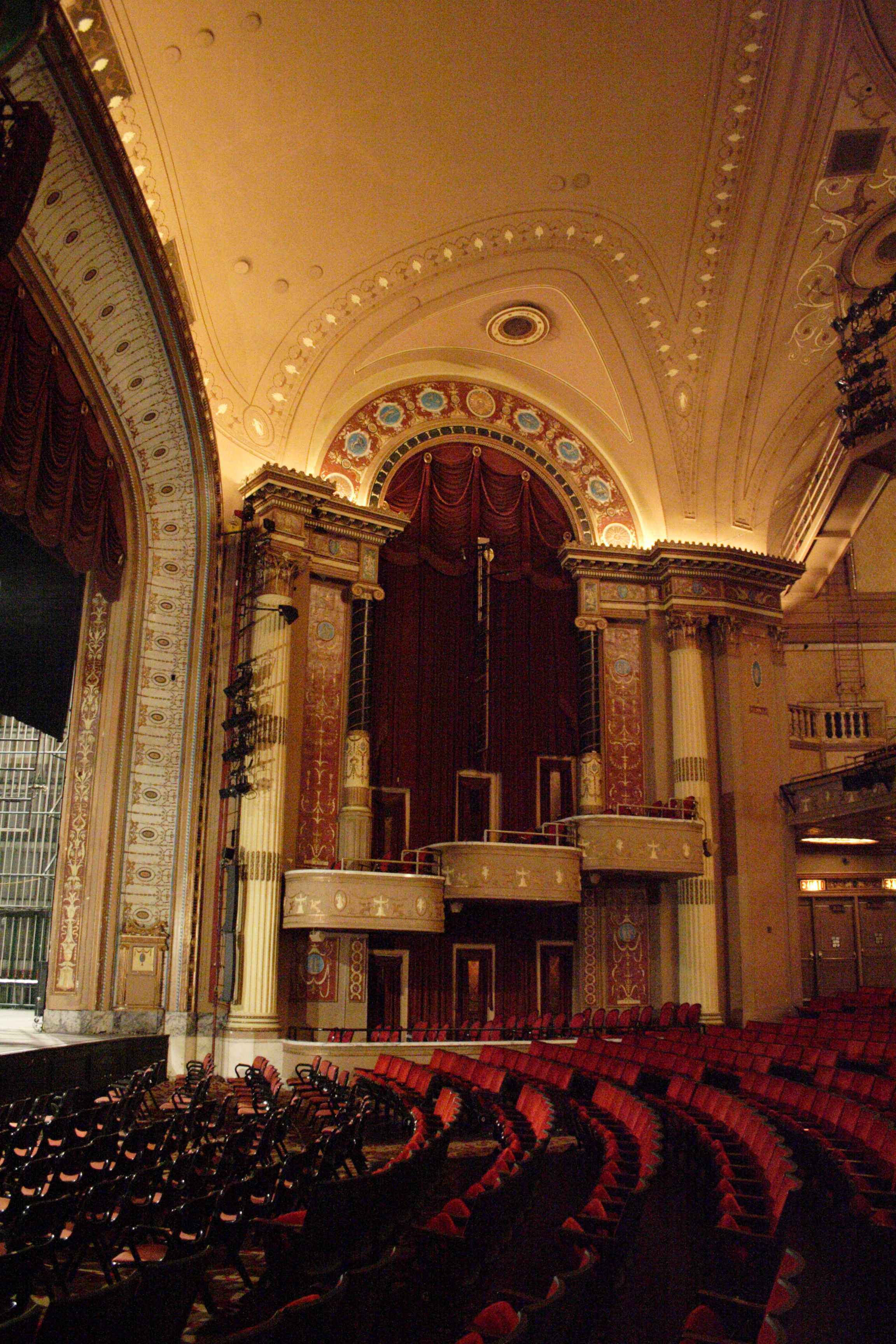 Playhouse Square in Cleveland, Ohio